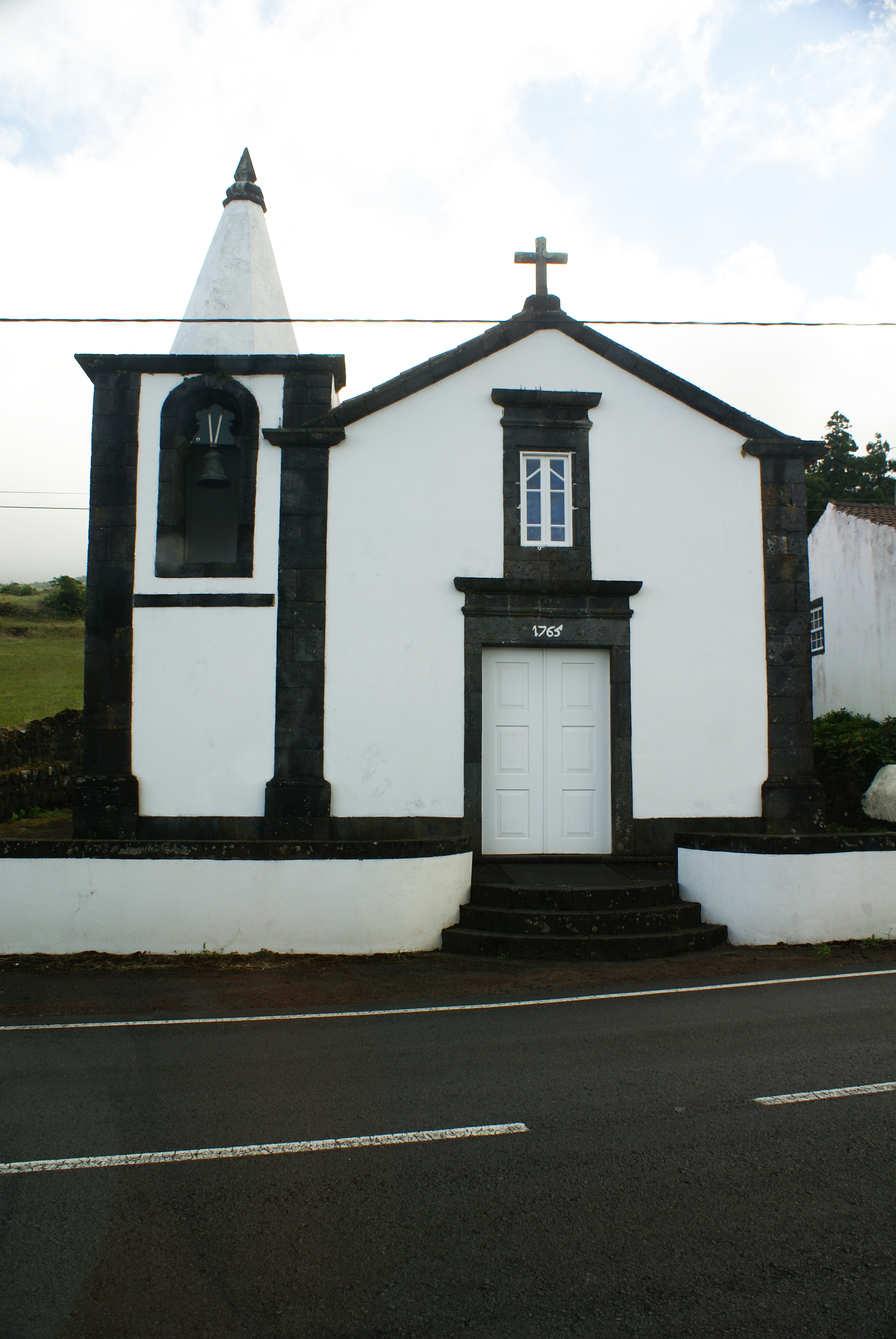 Ermida de Nossa Senhora da Piedade, fachada, Lajes do Pico, ilha do Pico, Açores, Portugal